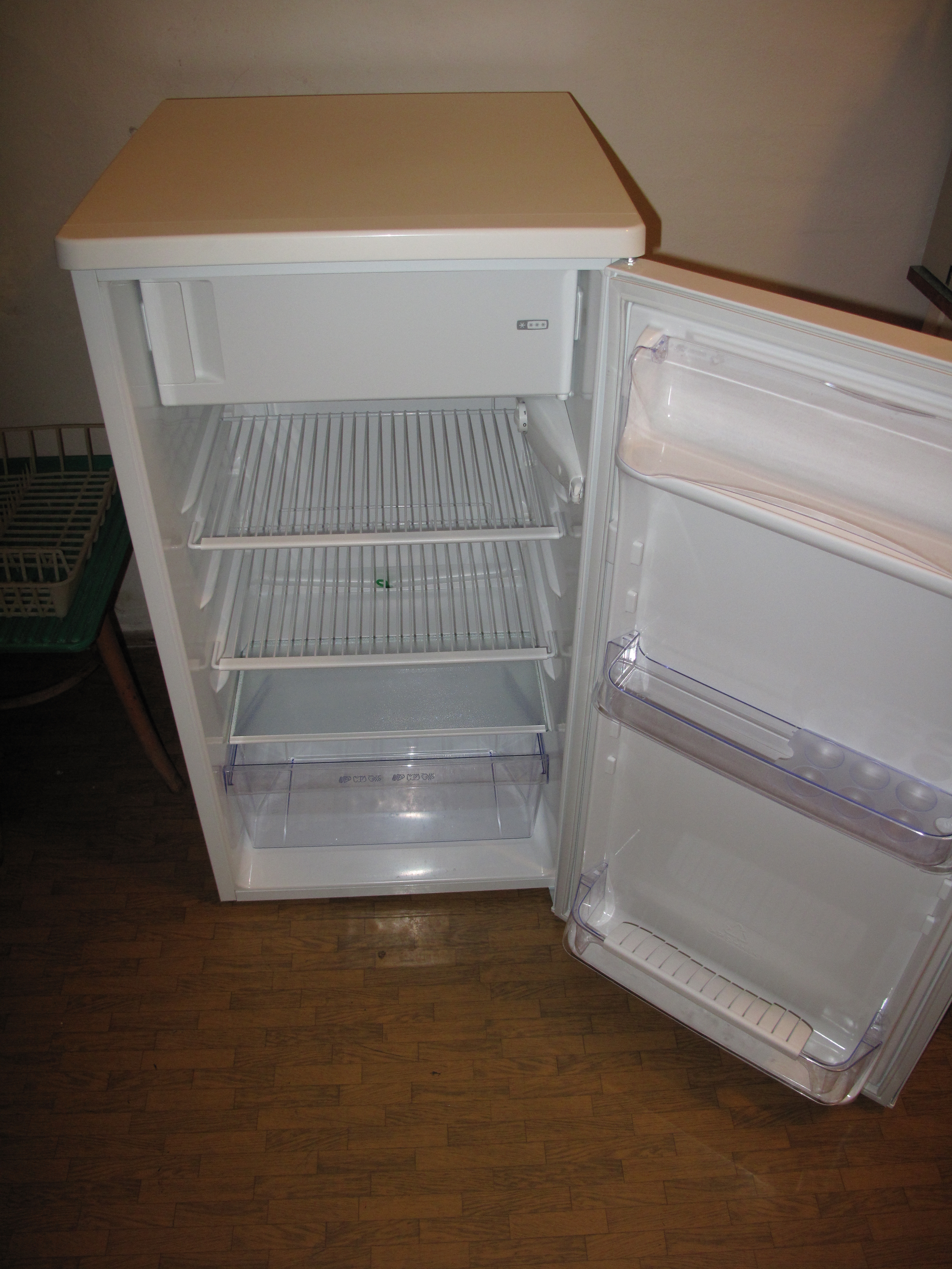 Open fridge with racks and drawer of Zanussi fridge, type ZRA 319 SW.